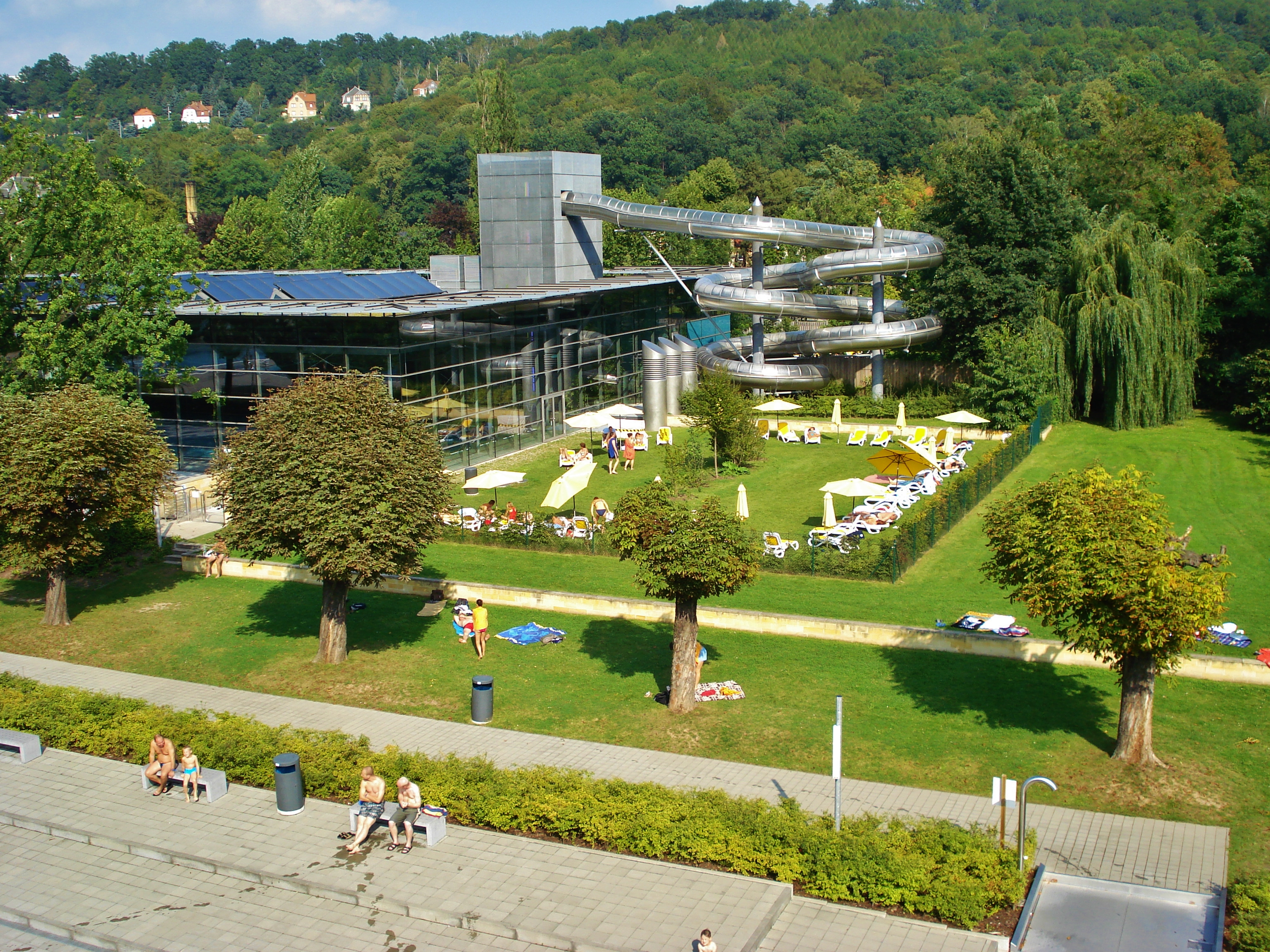 The "Geibeltbad" in Pirna(Saxony).